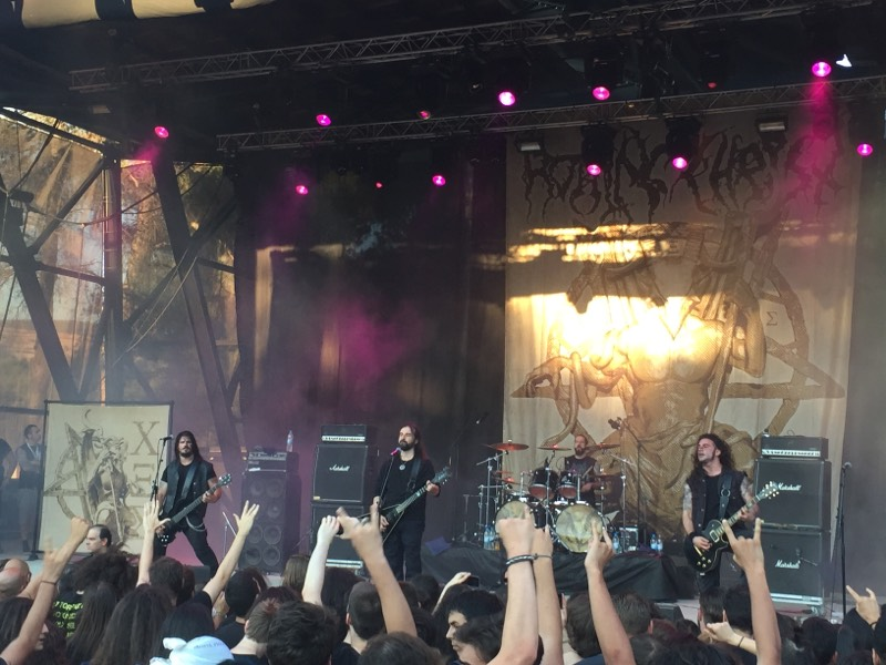 Rotting Christ at Rockwave, Athens, 2015